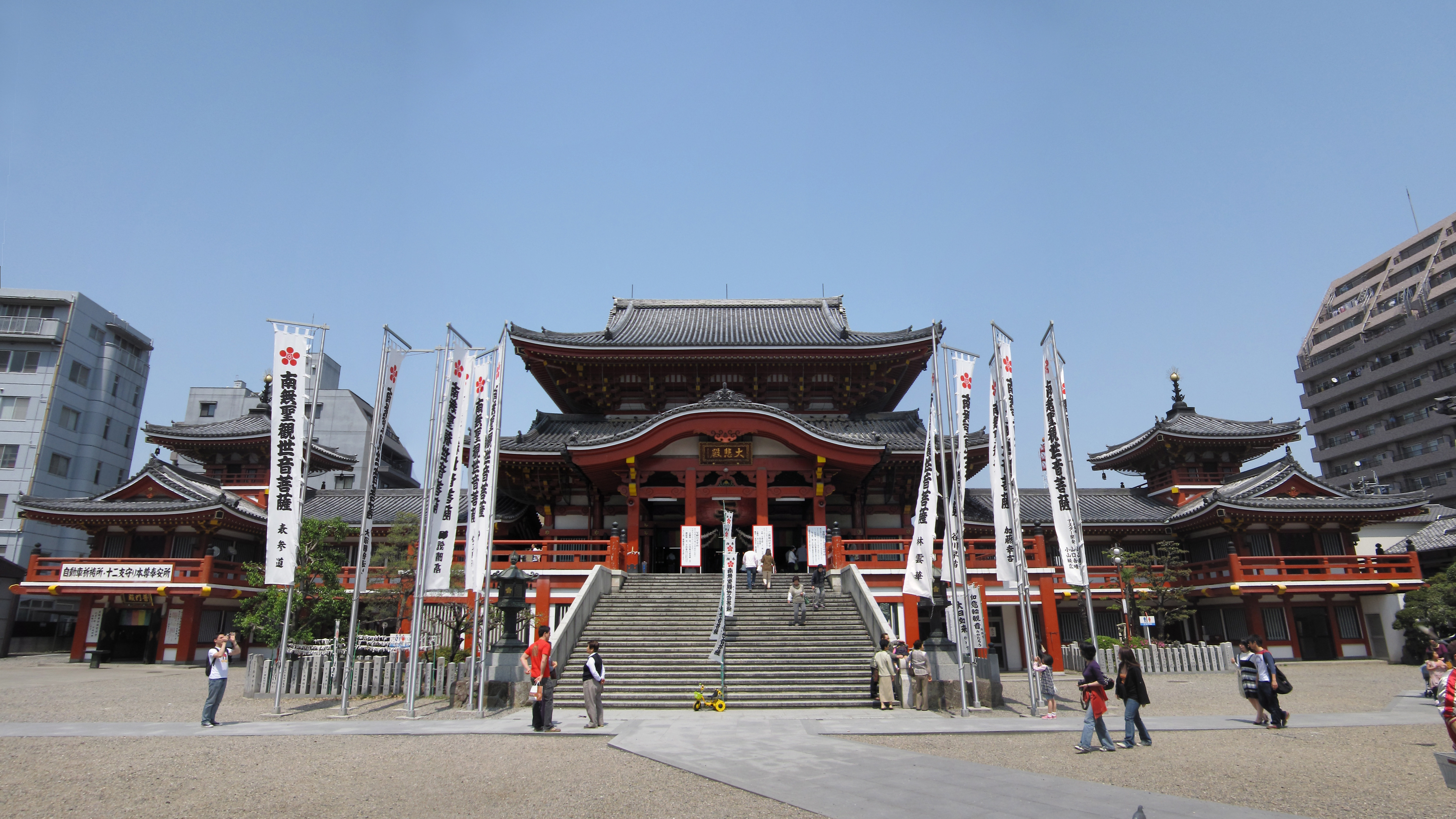 The temple of Ōsu Kannon in Nagoya, central Japan.